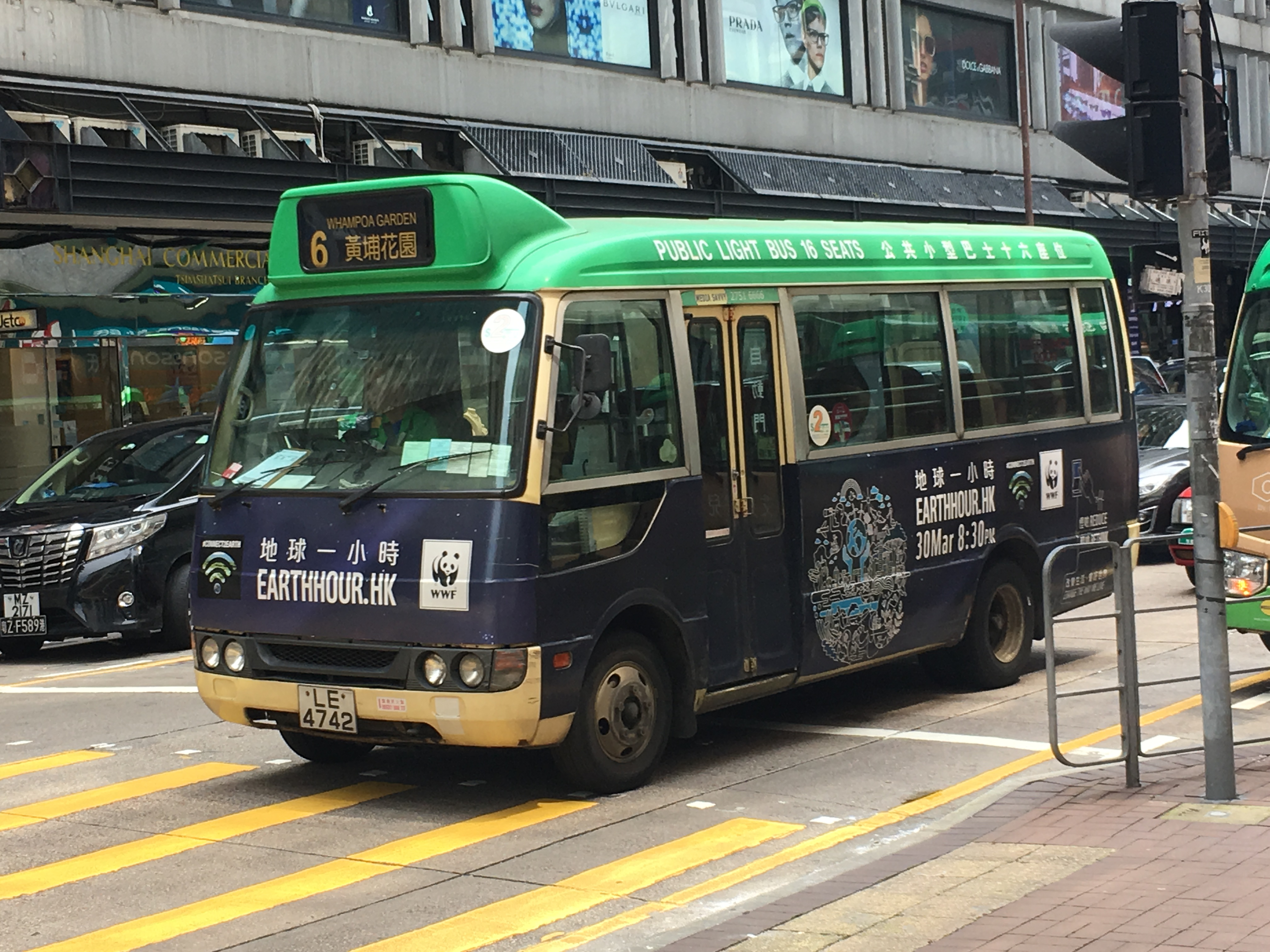 中文（香港）: This photo is taken in Tsim Sha Tsui.